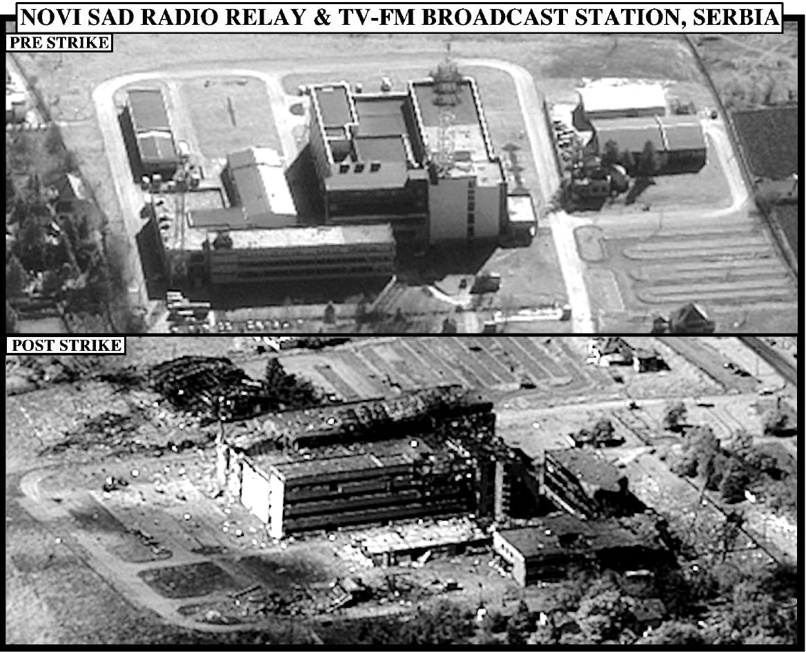 Pre-strike and post-strike bomb damage assessment photograph of the Novi Sad Radio Relay & TV-FM Broadcast Station, Serbia, used by Joint Staff Vice Director for Strategic Plans and Policy Maj. Gen. Charles F. Wald, U.S. Air Force, during a press briefing on NATO Operation Allied Force in the Pentagon on June 1, 1999.